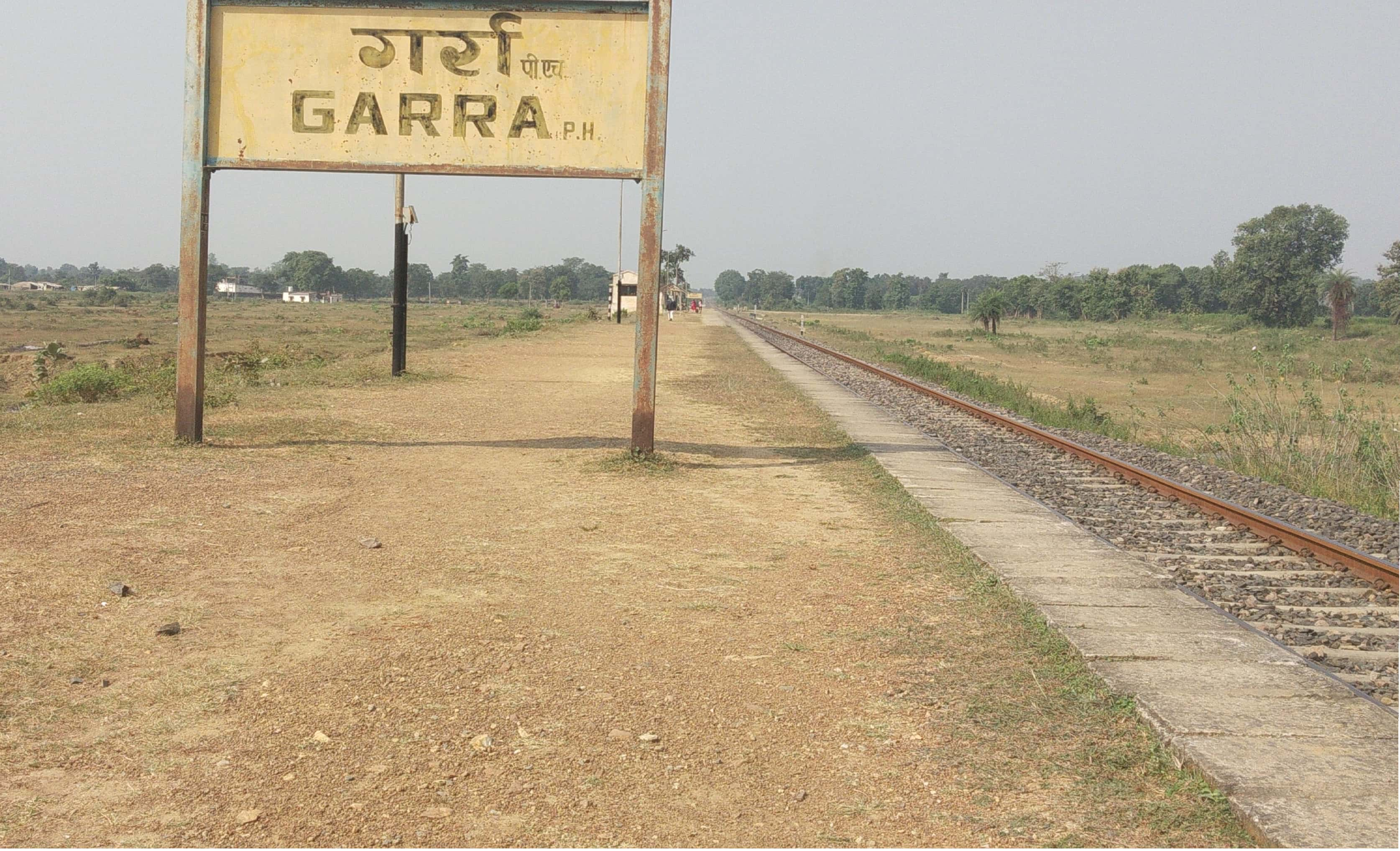 this article is about the garra railway station